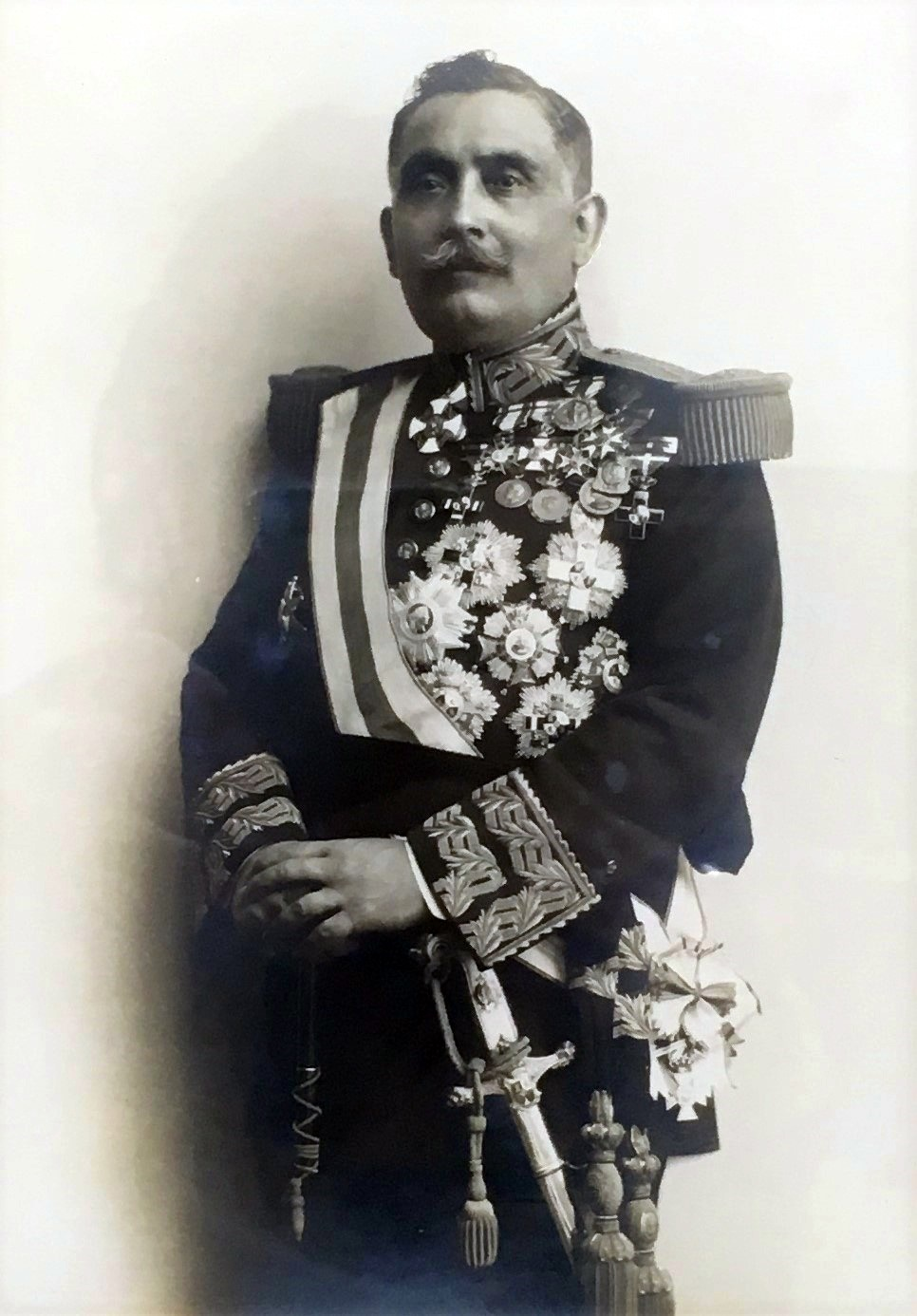 Alberto Castro Girona spaniard general 1875-1969